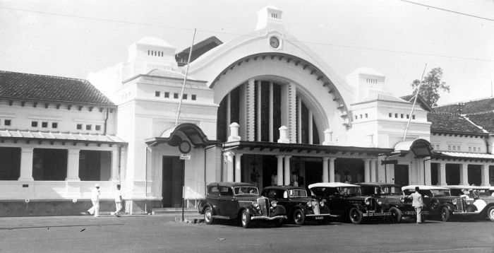 Parked cars in front of the post and telegraph office at Weltevreden, Batavia